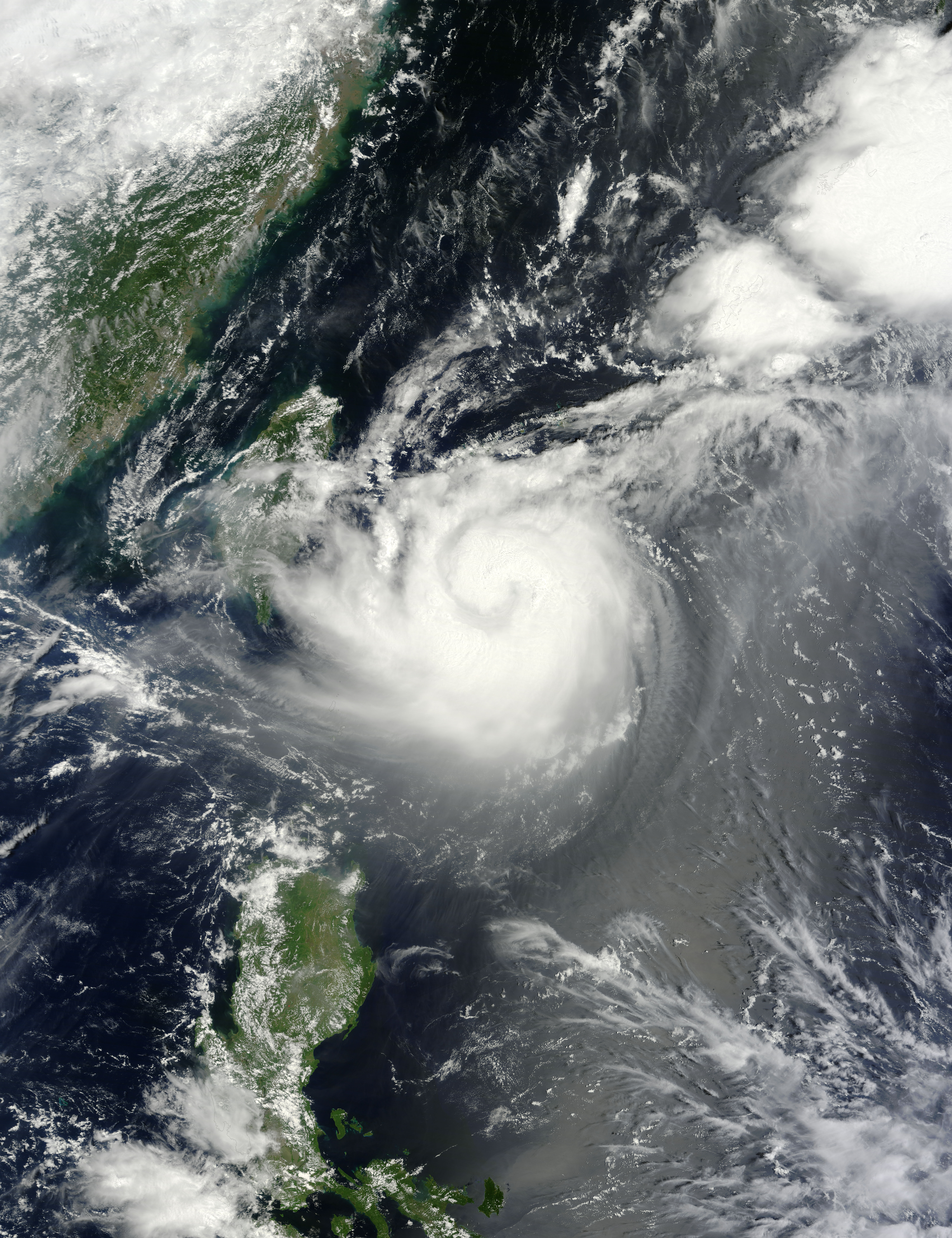 Typhoon Tembin (15W) off Taiwan